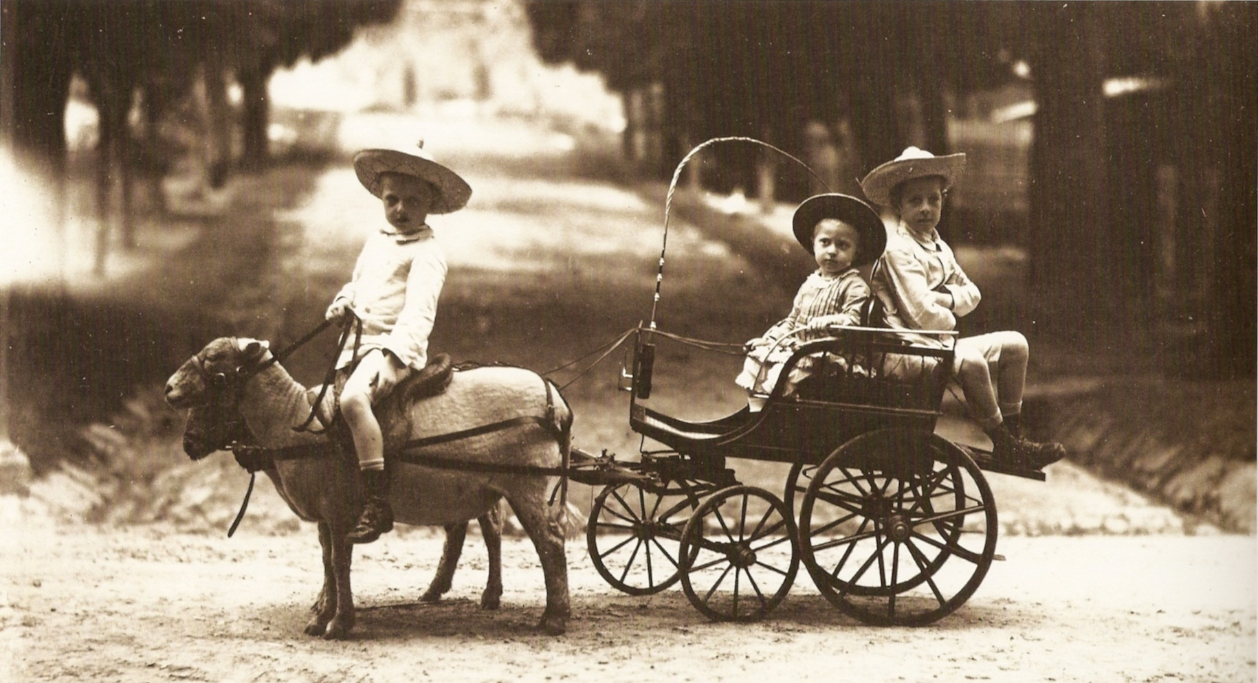 The children of the Prince Gaston of Orléans, Count of Eu and Princess Isabel, from left to right: Pedro, Antônio and Luís, c.1883.